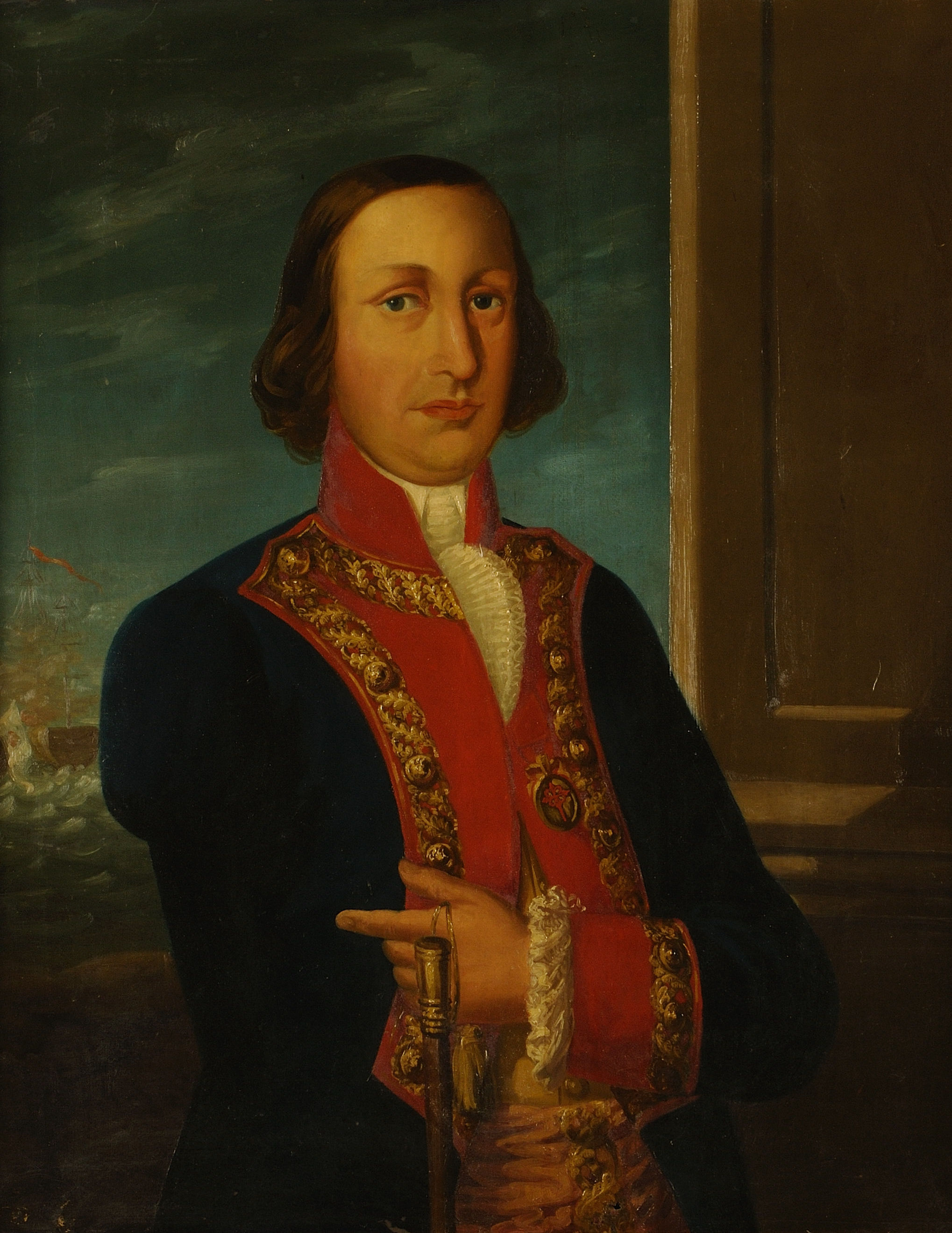 Portrait of the Admiral of the Spanish Navy Francisco Javier Winthuysen